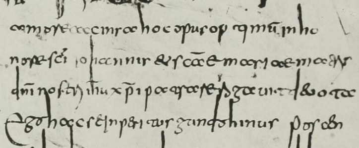 8th century Merovingian script. The uploader seems to have taken this image from Diane Tillotson's website, who describes this image as "Merovingian book script from an 8th century Evangelary (Autun, Bibliothèque du Grand Séminaire, 3)", while citing F. Steffens' Lateinische Paläographie (1929). Another uploading of the same image can be found here, where Tillotson mentions the contents are from a gospel.